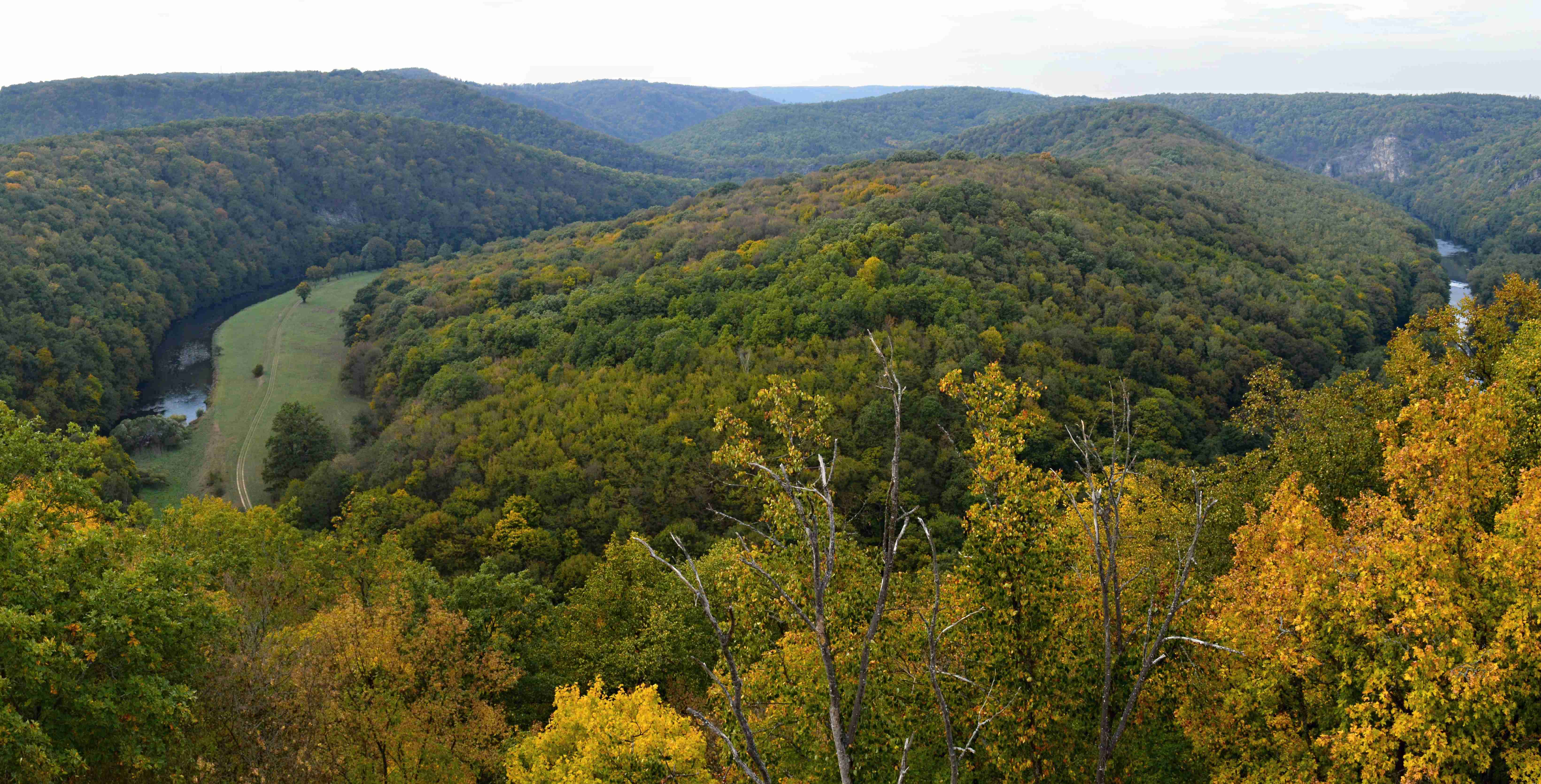 The lookoutpoint on the top of the Nový Hrádek Castle (Czech Republic).